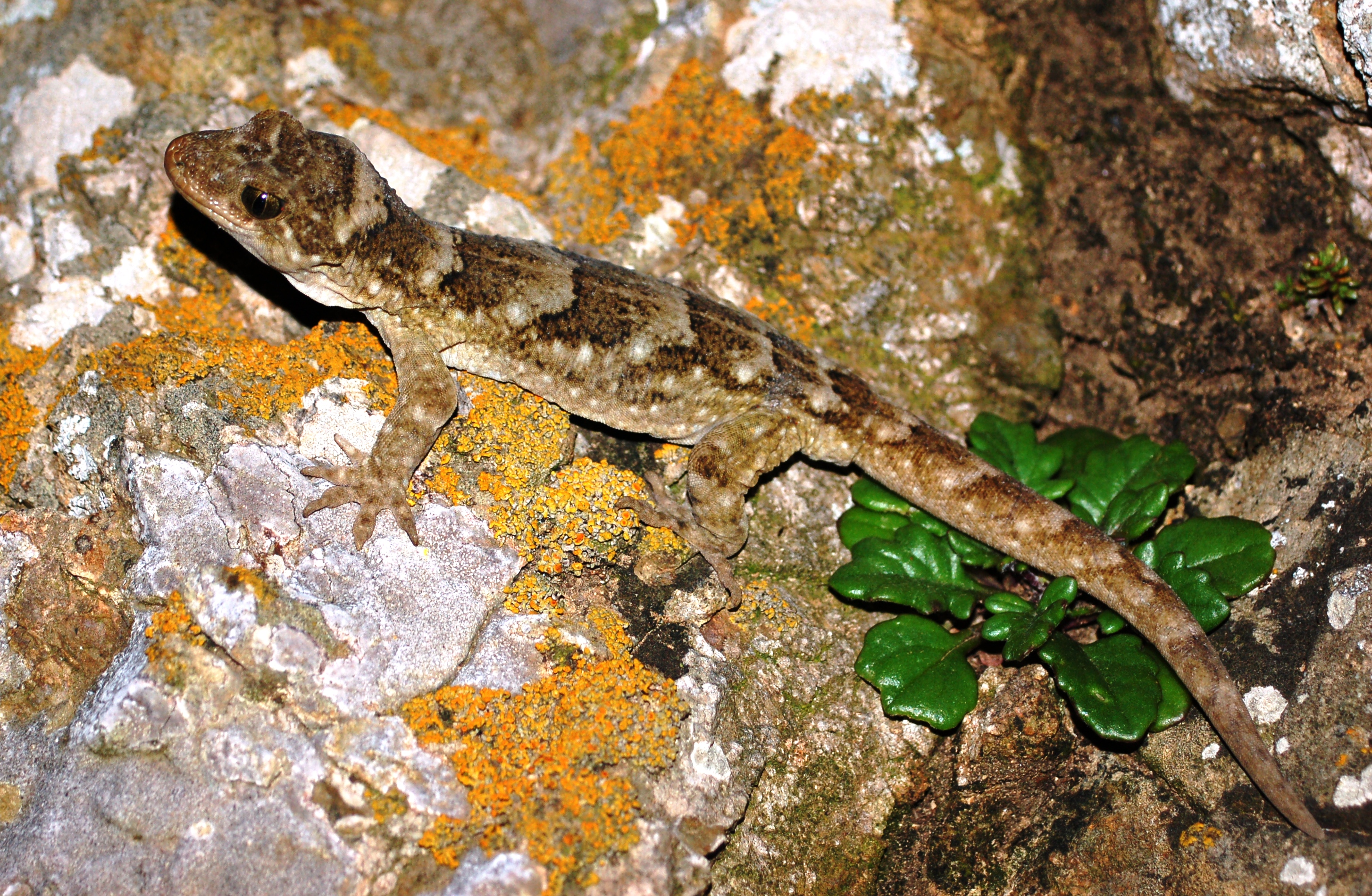 Duvaucel's gecko, Hoplodactylus duvaucelli, North Brother Island, New Zealand